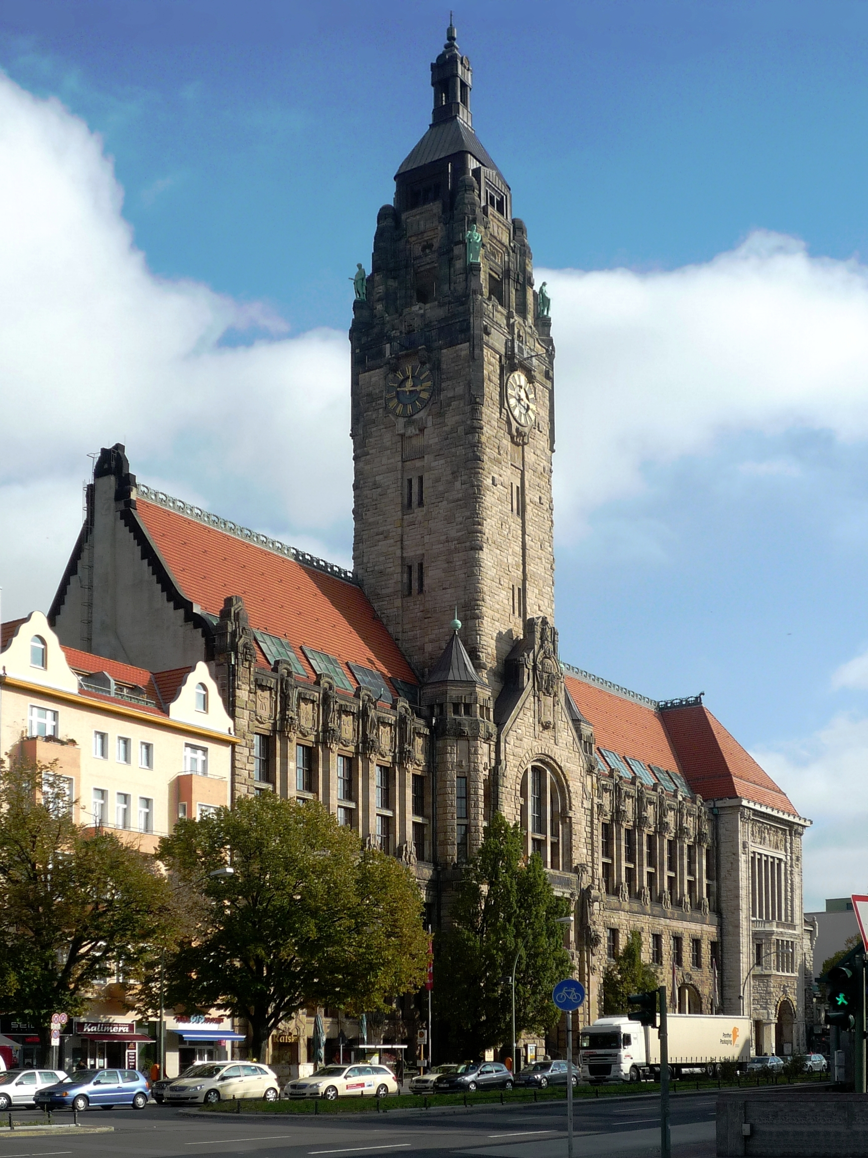 Berlin, city hall of Berlin-Charlottenburg.